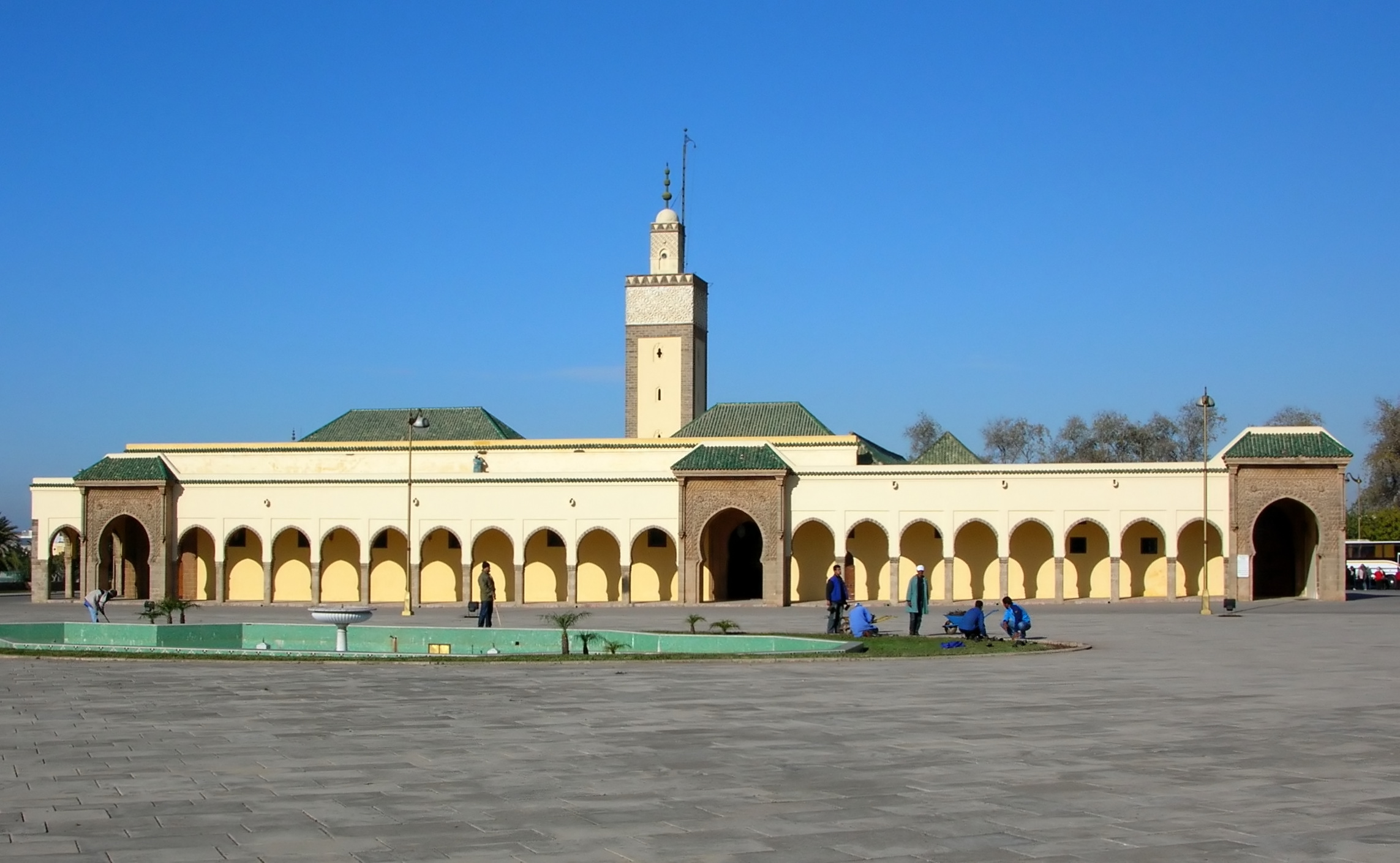 Ahl Fas Mosque, Rabat, Morocco